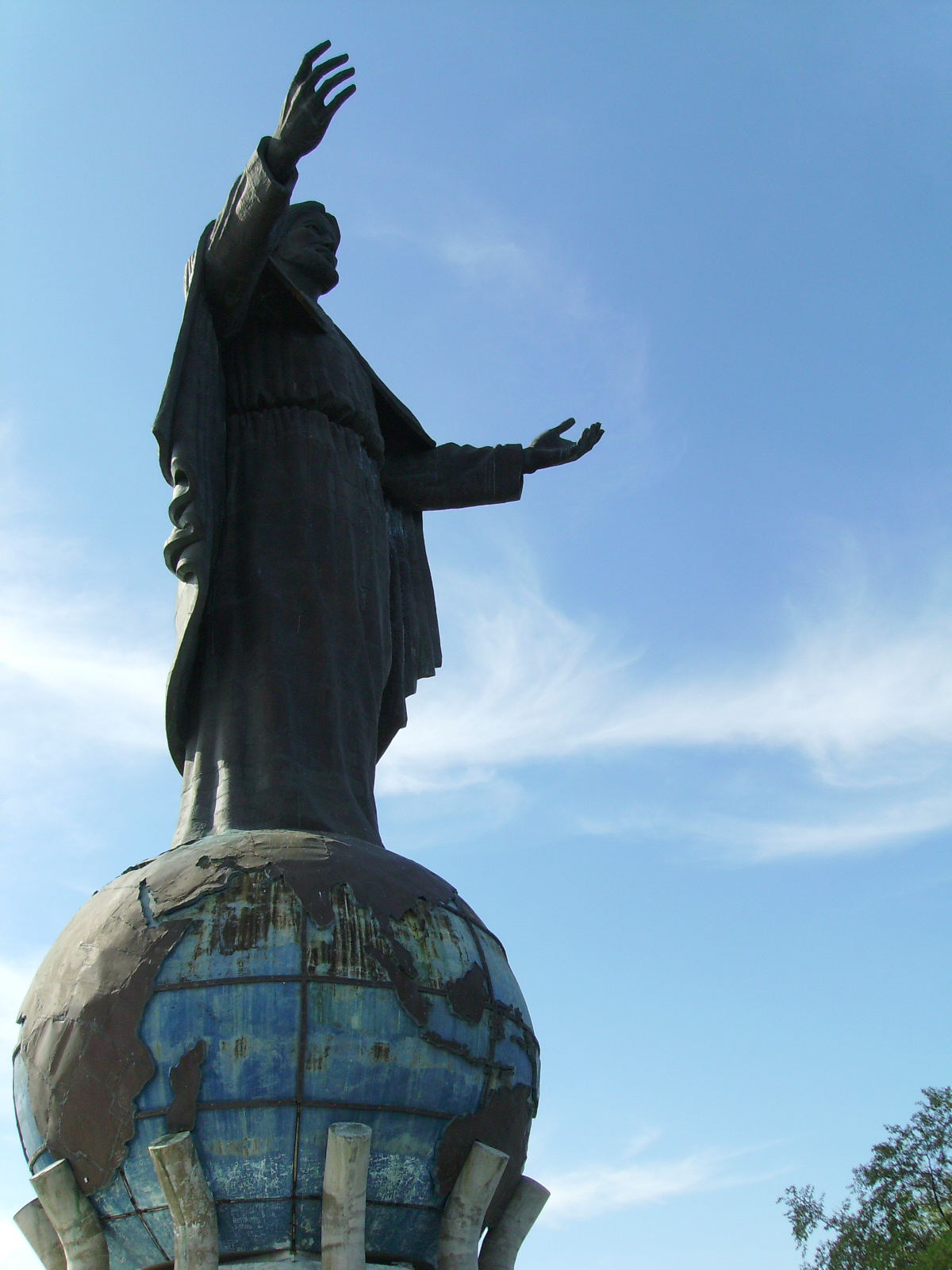 Statue of Cristo Rei, overlooking the bay of Dili, in East Timor